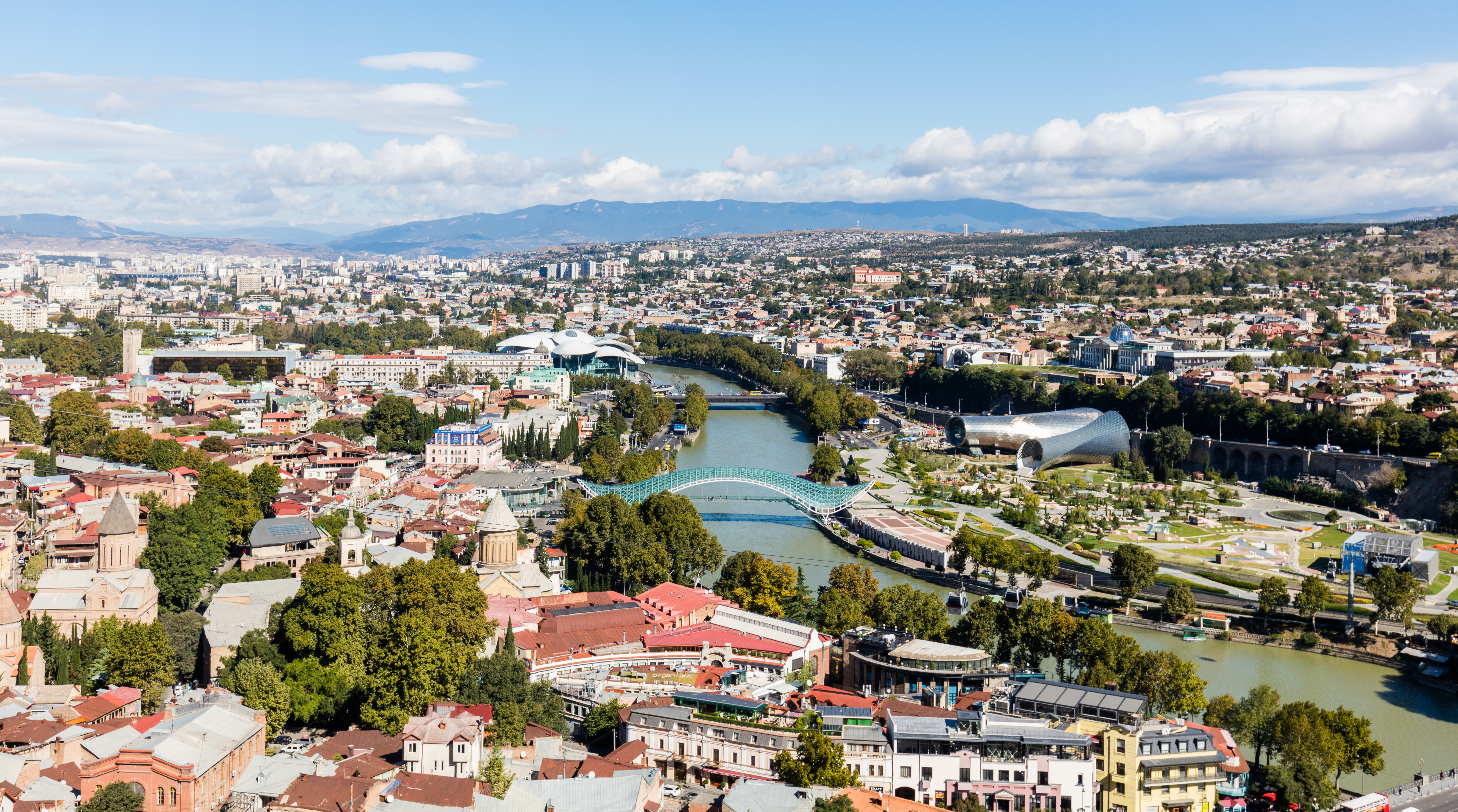 View of Tbilisi, Georgia